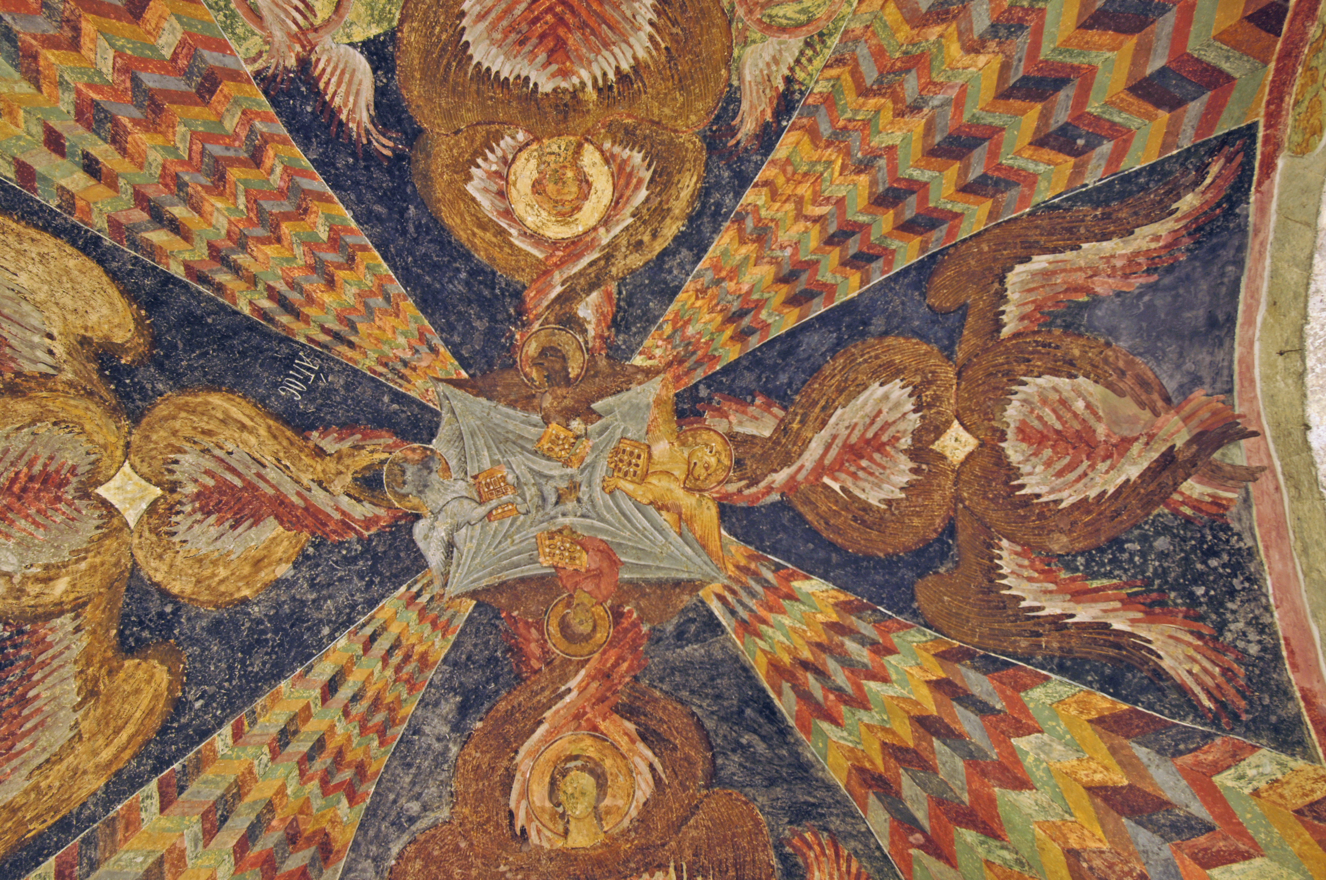 In particular the frescos in the narthex (built under Emperor Manuel I, 1238-1263), frescos added shortly after 1250, are a delight. One is striking for its centralized composition: the four evangelists (Mathew as a man, Marcus as a lion, Luke as a ox or bull and John as an eagle), each holding the bible book they wrote, surrounding the hand of god in the centre, with angels and wings without bodies attached surrounding it.